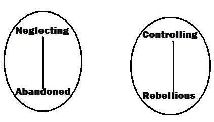 An example of reciprocal roles, a concept from Cognitive Analytic Therapy